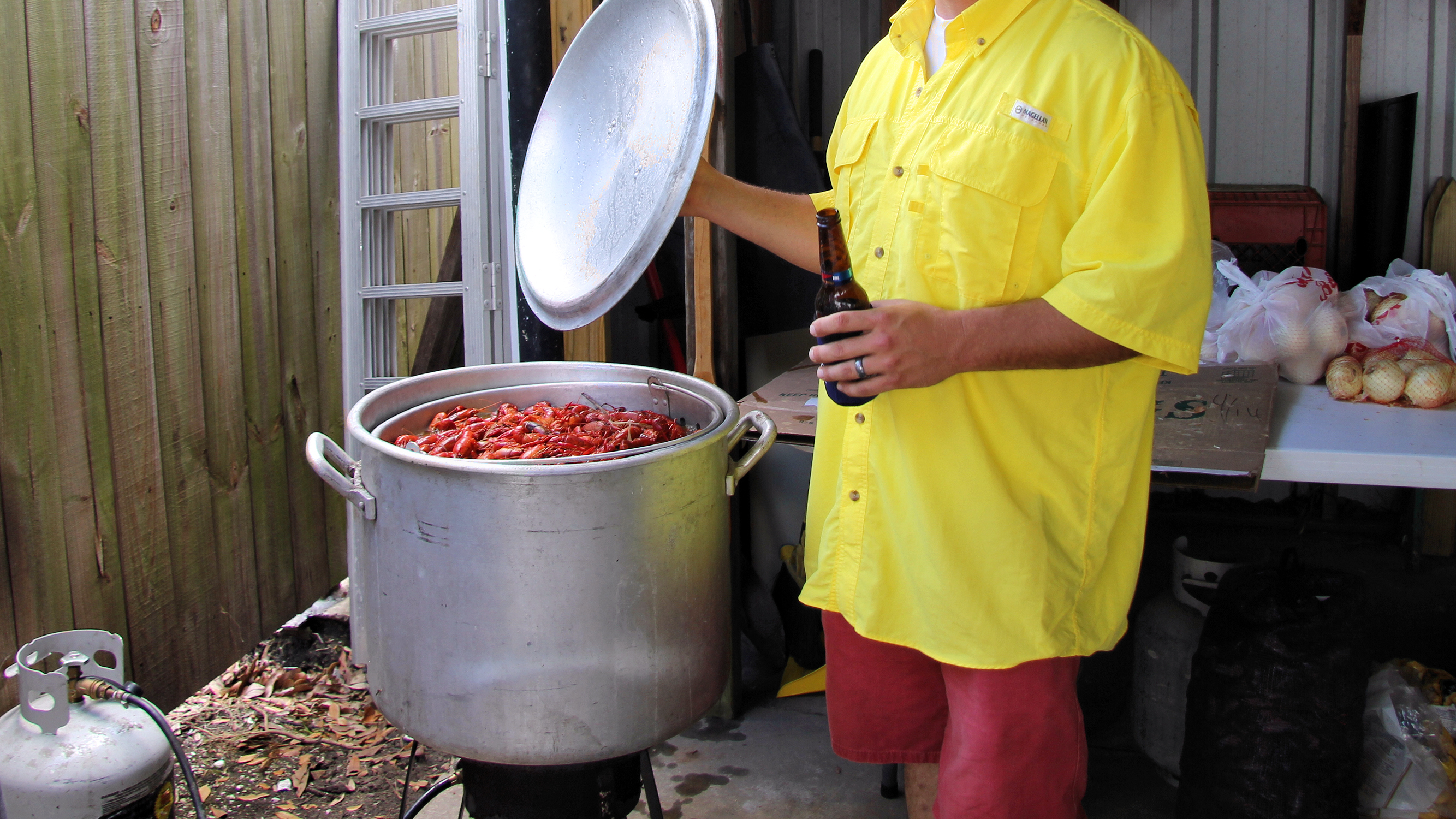 Cooking crawfish at a party in Nederland, Texas, United States.